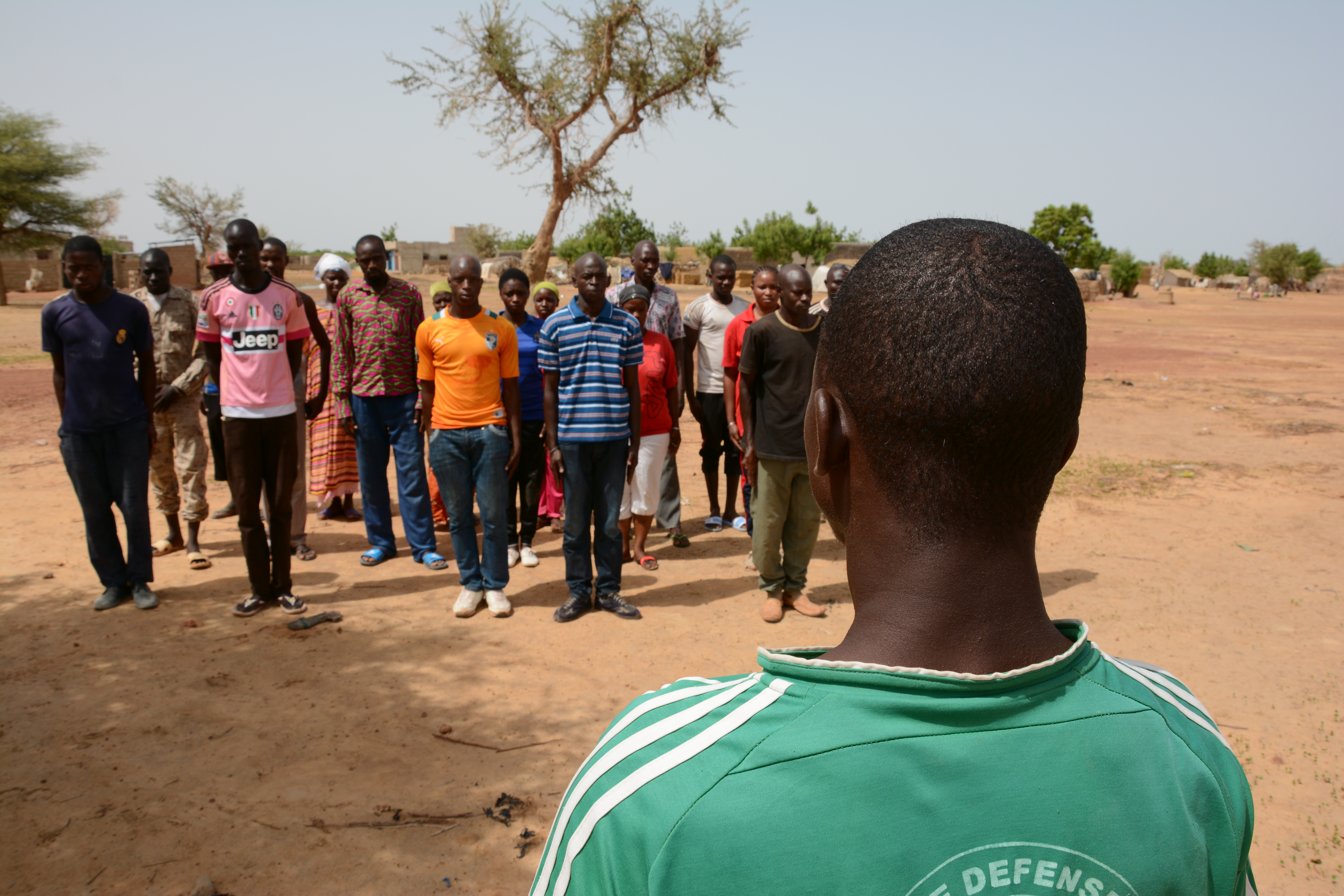 While waiting to be cantoned the militia Ganda Izo trains in Sevare, Mali, June 26, 2016.